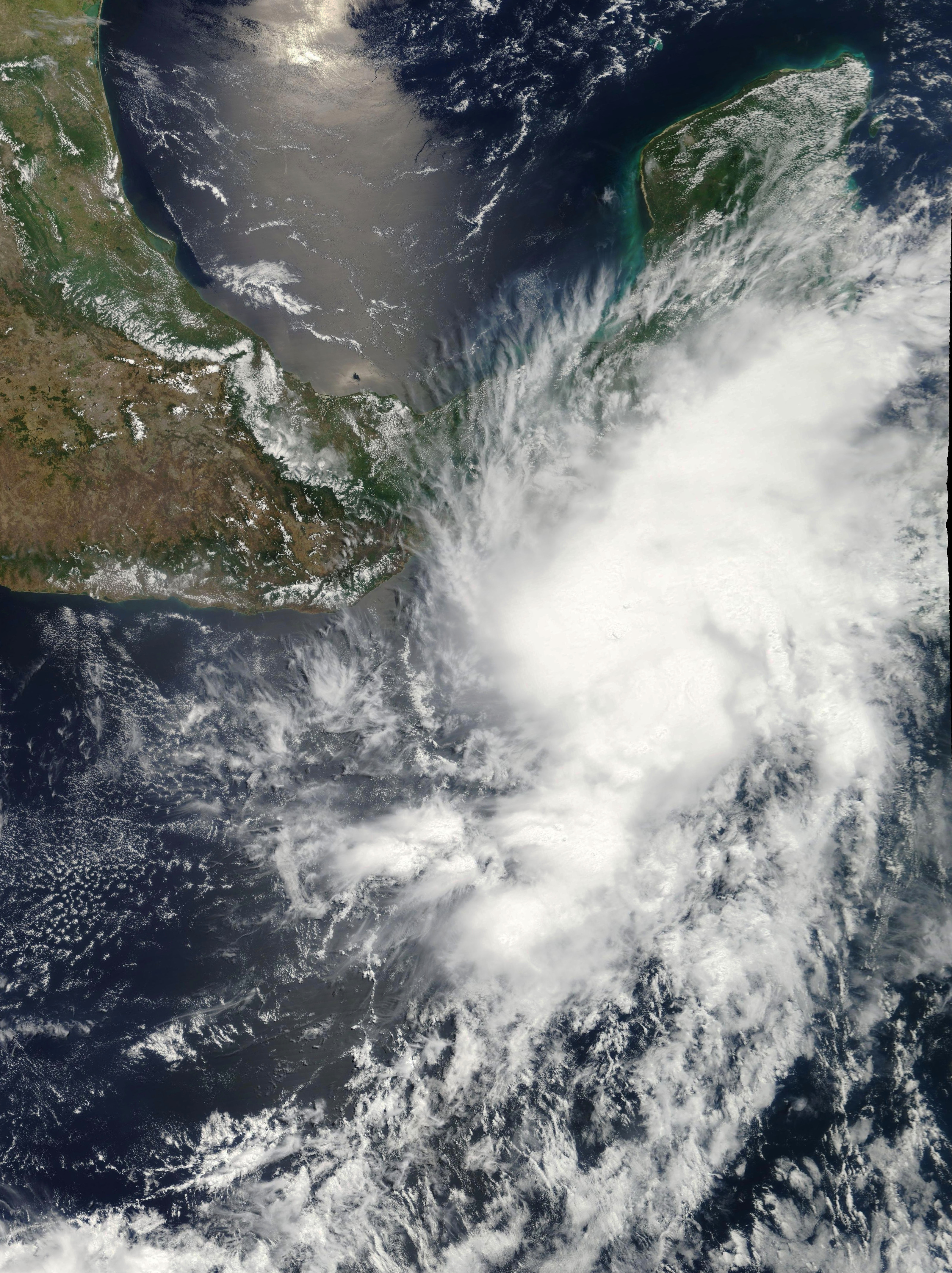 Tropical Storm Agatha near landfall in Guatemala on May 29, 2010